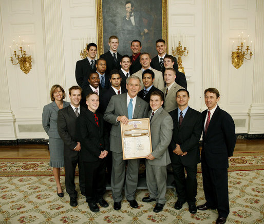 The University of Oklahoma Sooners men's gymnastics team, including 2008 Summer Olympian Jonathan Horton, are honored at the White House by President of the United States George W. Bush for the side's winning the 2008 National Collegiate Athletic Association national championship.